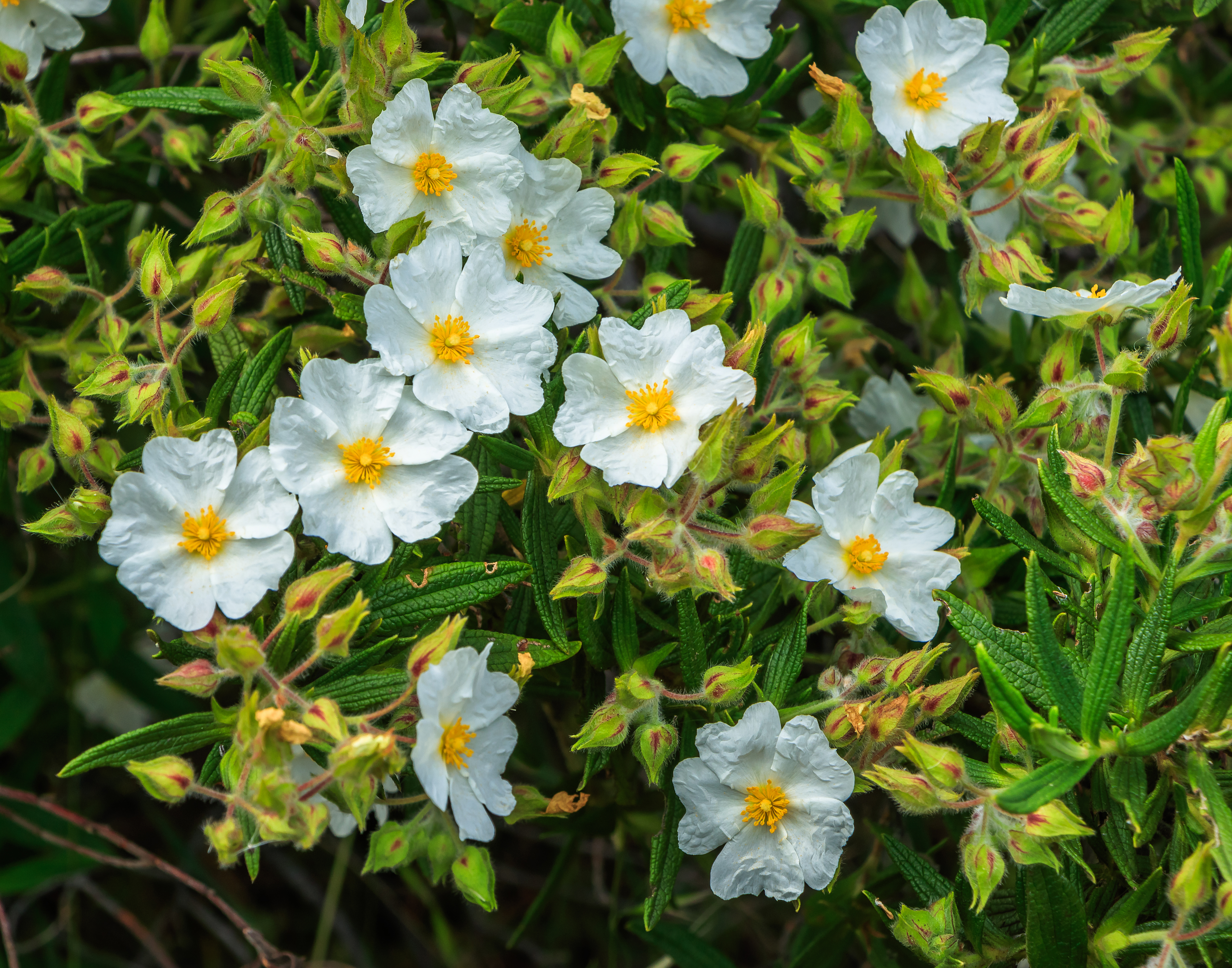 Cistus monspeliensis L. (1753), Montpellier cistus, flowers; Macizo de Teno, Tenerife, Canary Islands, Spain.